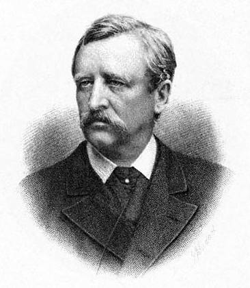 Finnish Explorer Adolf Erik Nordenskiöld (1832-1901)